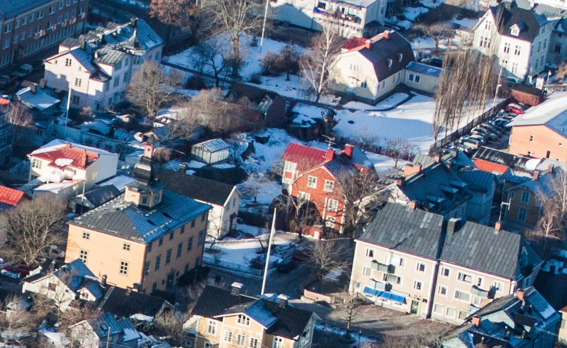 Löwenströmska trädgården i Vaxholm Swedish Armed Forces ID: 10:830:11101 (cropped)